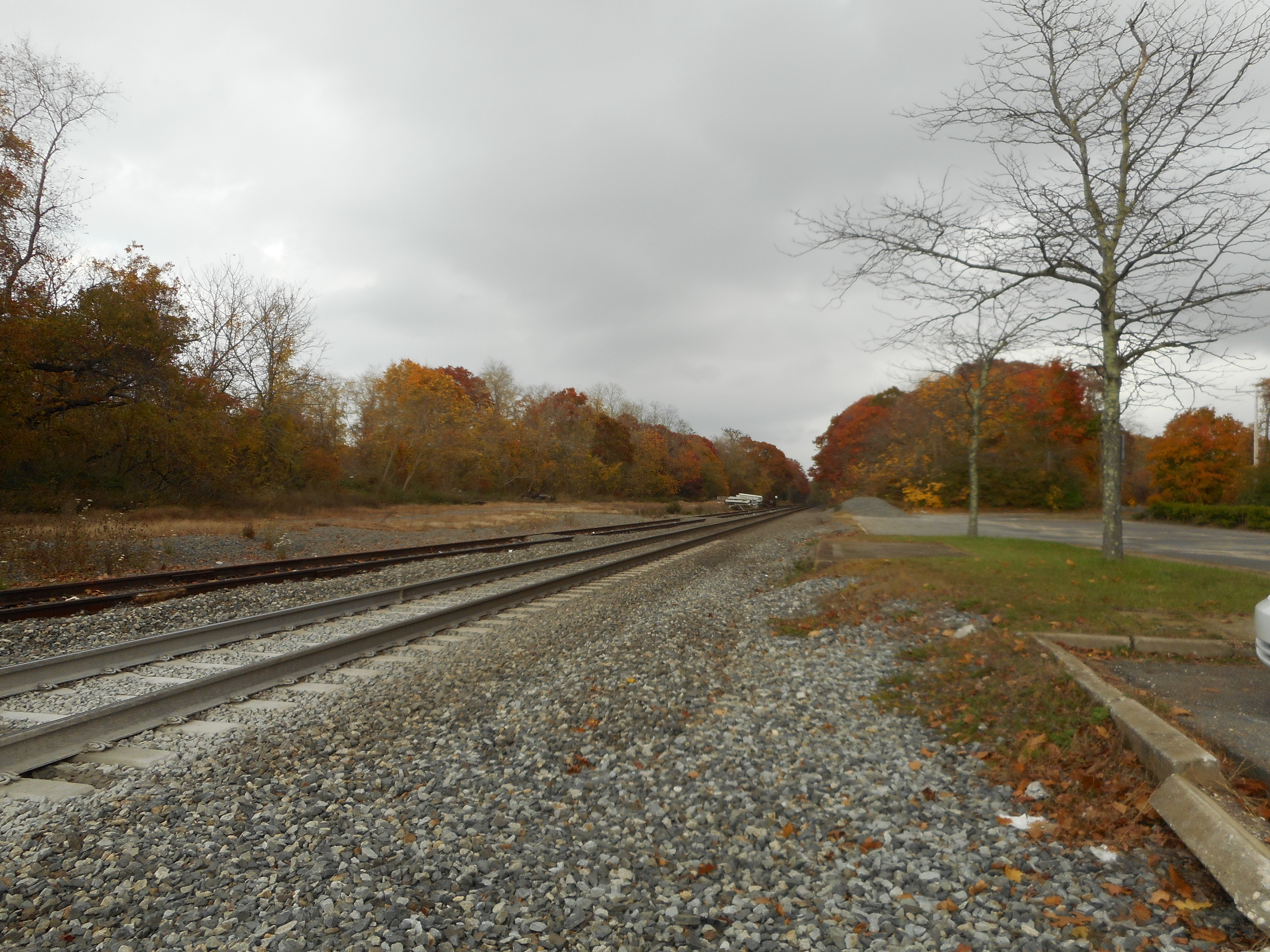 Montauk-bound view from the former Center Moriches (LIRR station) in Center Moriches, New York.